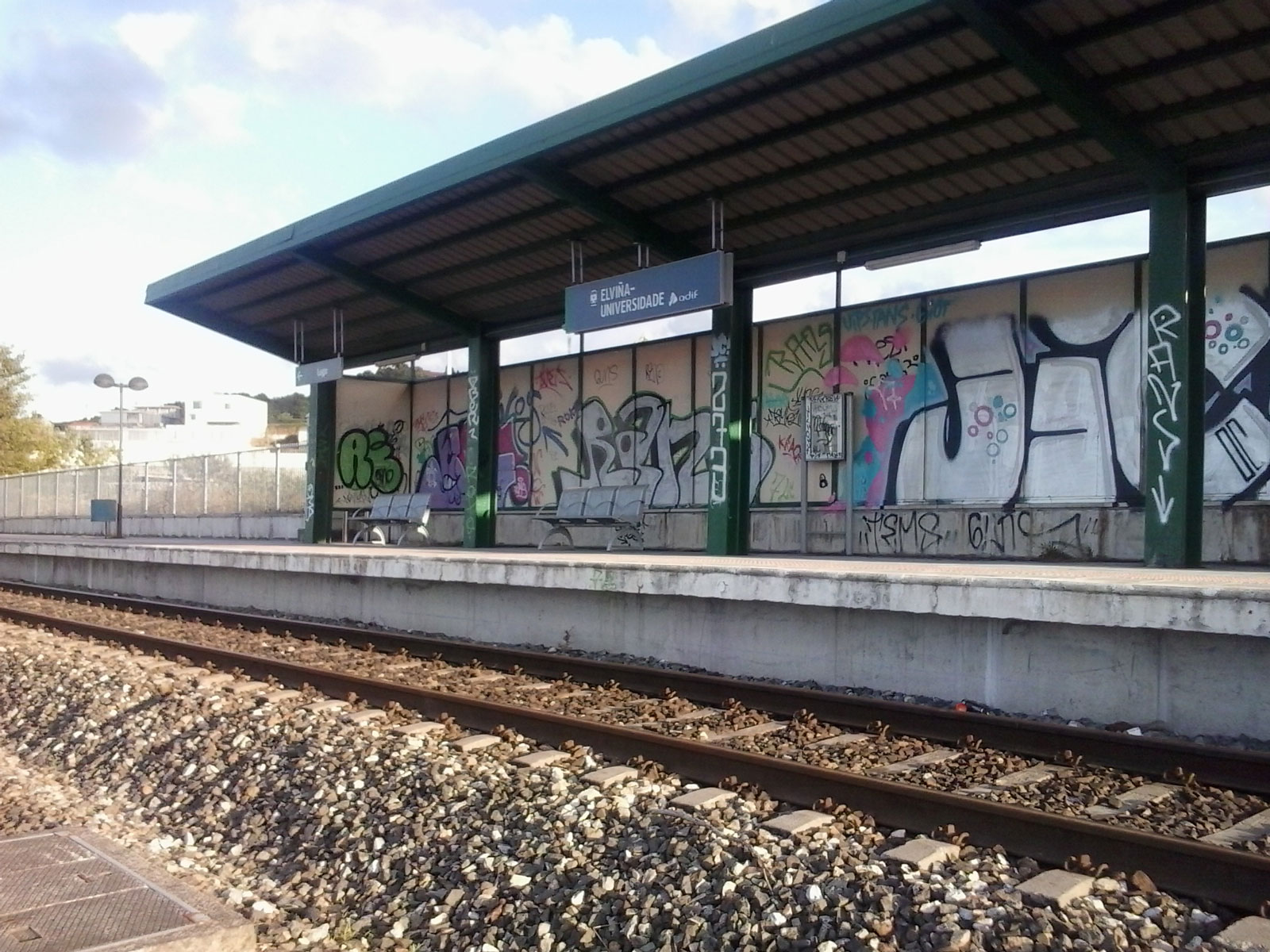 Elviña - Universidade train station in A Coruña (Spain).